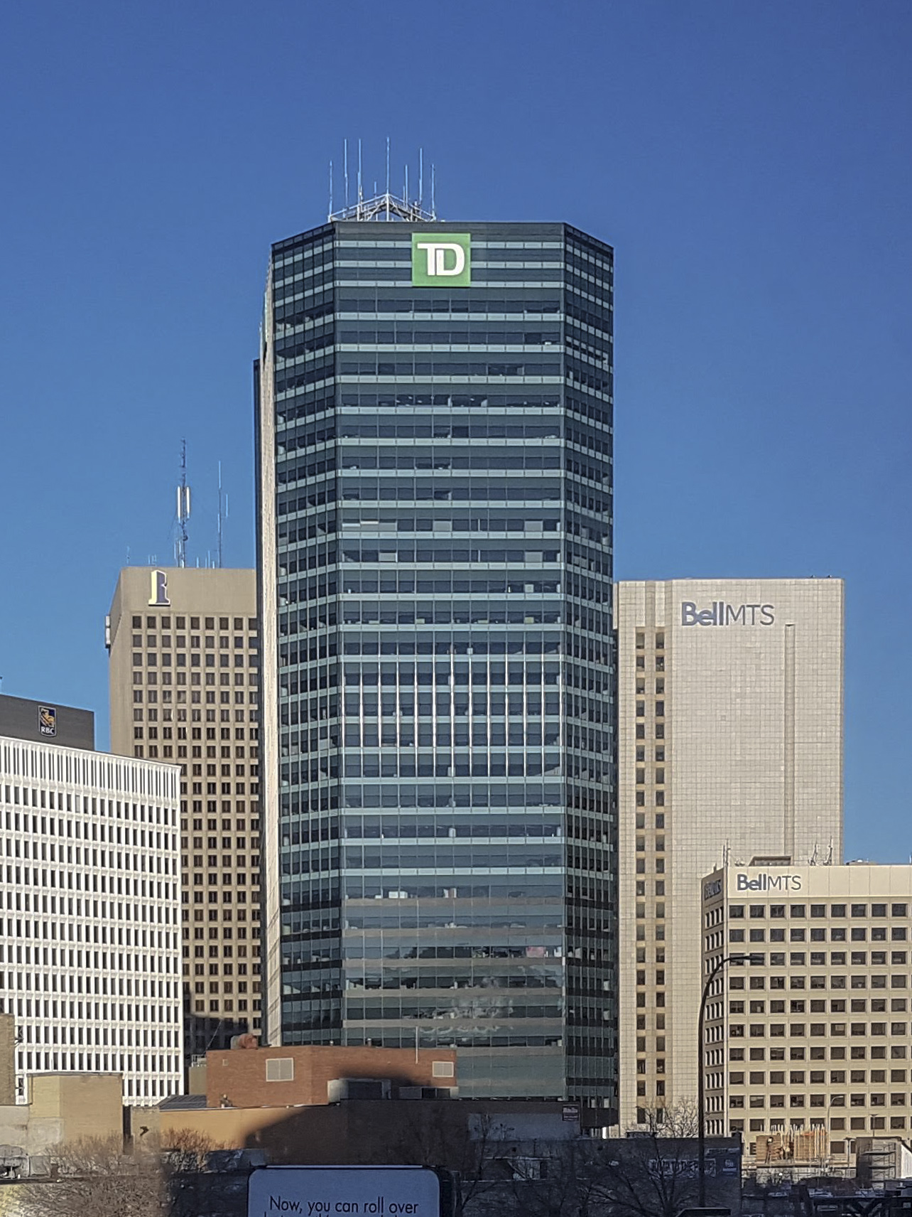 360 Main Street office tower in Winnipeg